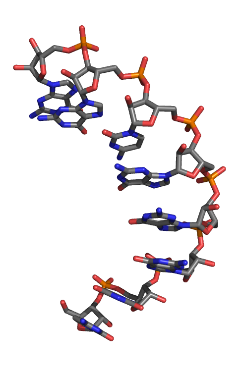 3D structure model of an L-RNA molecule derived from crystal structure data (PDB 1R3O).